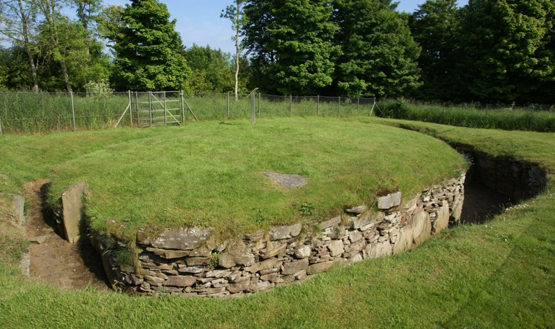 Tealing Earth House, Tealing, Angus, Scotland